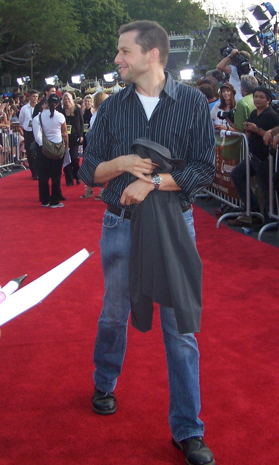 American actor Jon Cryer.